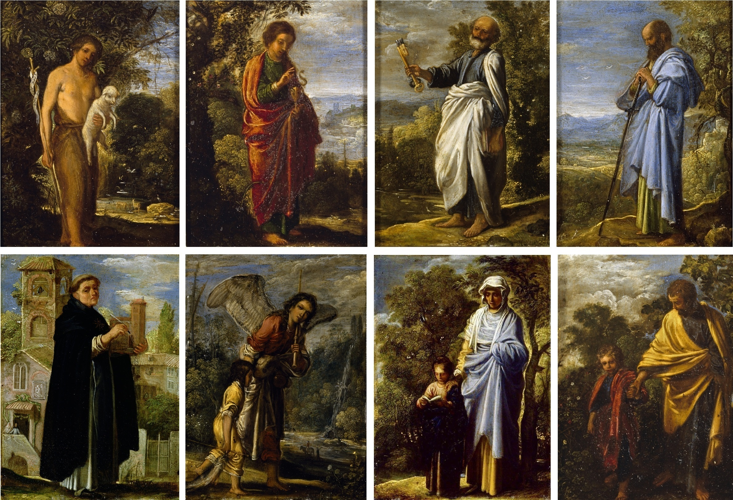 from top left to bottom right 1. Saint John the Baptist 2. Saint John the Evangelist 3. Saint Peter 4. Saint Paul 5. Saint Thomas Aquinas 6. Tobias and the Angel 7. The Virgin and Saint Anne 8. Saint Joseph and the Christ Child